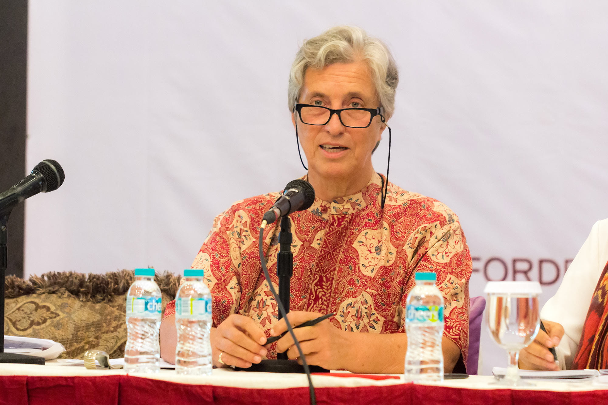 Saskia Wieringa, a Dutch sociologist and feminist, at the International Conference on Feminism on 24 September 2016. This conference was held by Jurnal Perempuan at the Swiss-Belhotel in Kemang, Jakarta, in commemoration of its twentieth year.